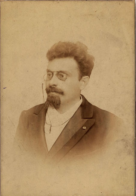 Mihailo Vujić